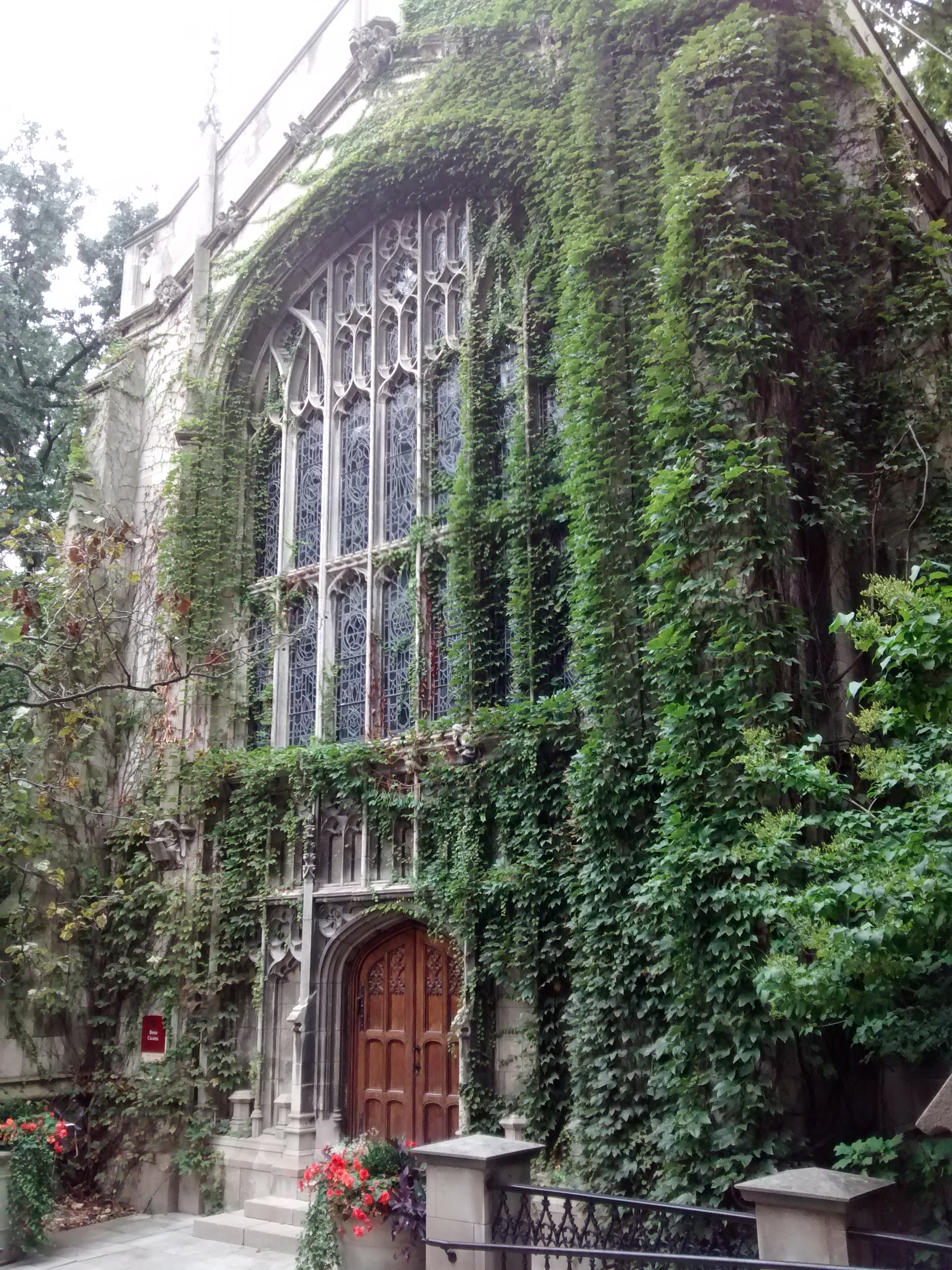 Bond Chapel at the University of Chicago.